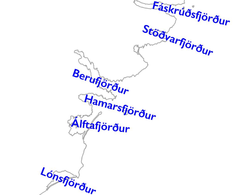 A map of some fjords in eastern Iceland